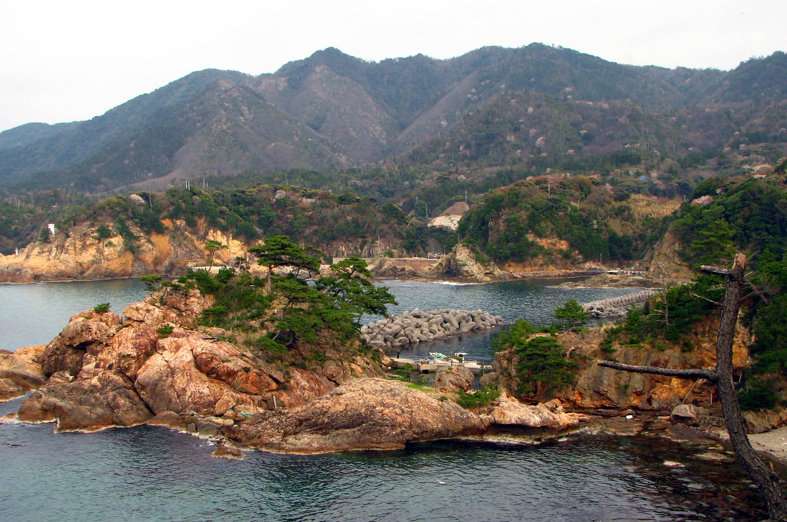 Cape Hinomisaki, Shimane Prefecture, Japan